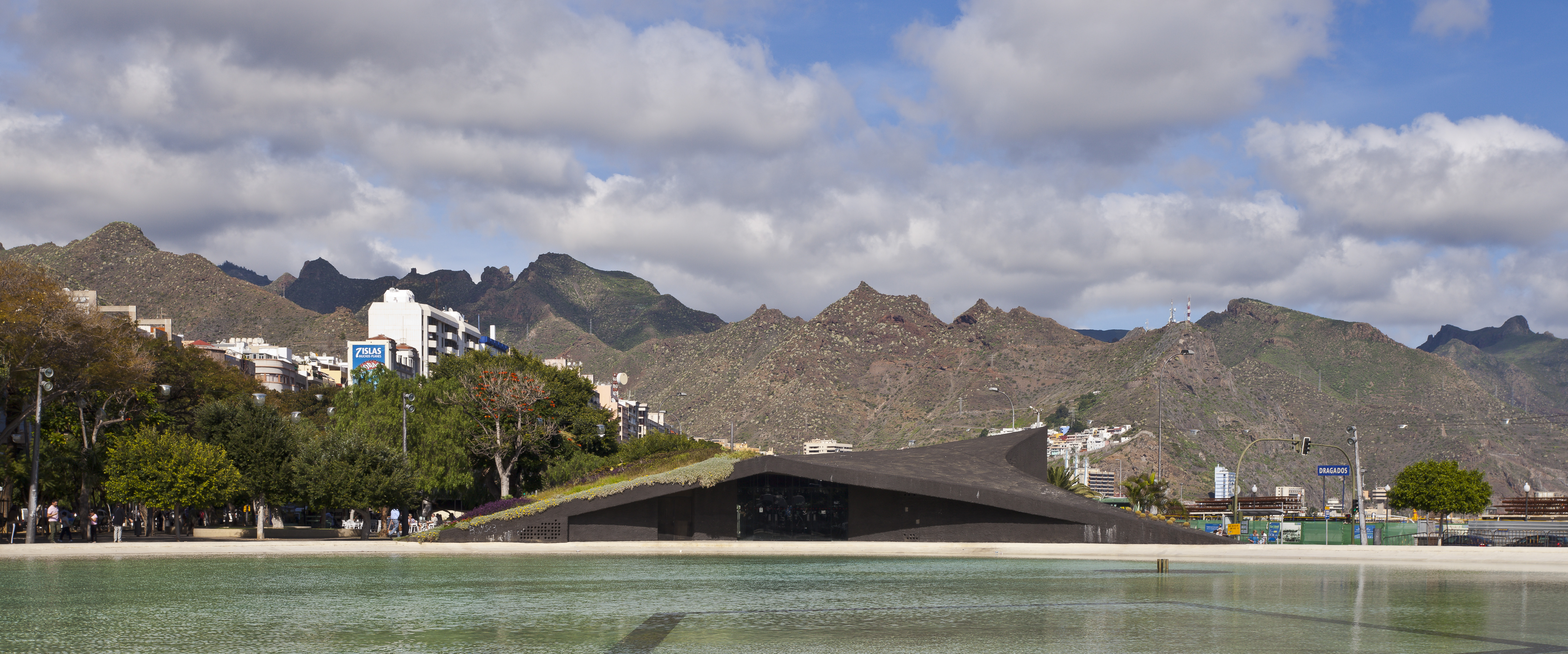 Square of Spain, Santa Cruz de Tenerife, Spain